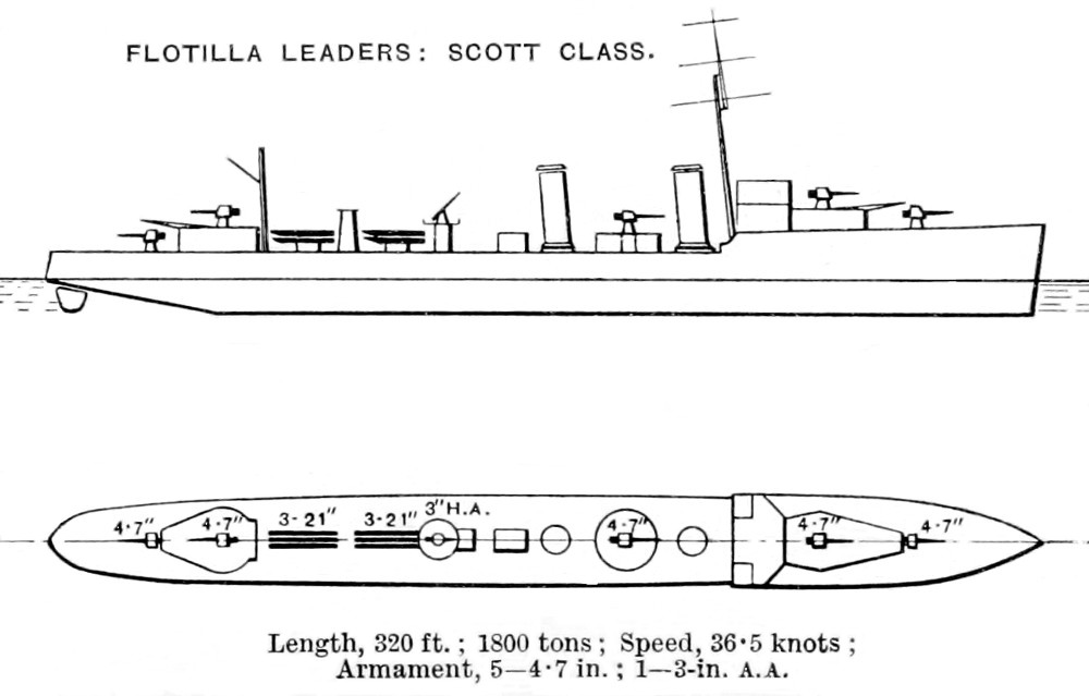 Diagrams depicting right elevation and plan views of British Admiralty type destroyer leader (also known as Scott class).